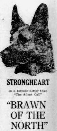 Newspaper advertisement for the American film Brawn of the North (1922) with Strongheart the Dog, on page 15 of the November 18, 1922 Duluth Herald.